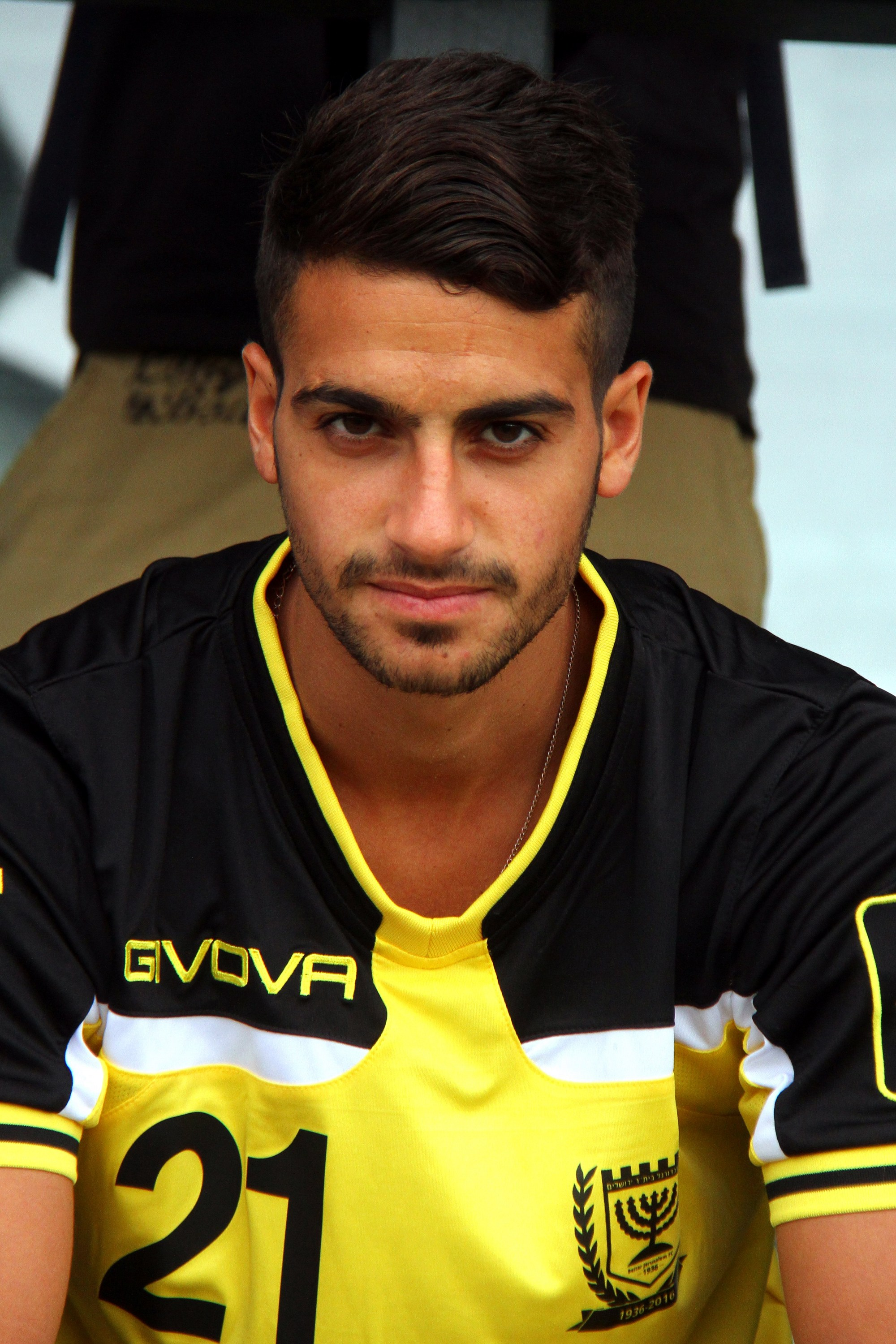 Friendly match between Beitar Jerusalem F.C. (yellow shirts) and MTK Budapest FC (blue shirts) at 2016-06-18 in Bad Erlach (Austria. – The photo shows Avishay Cohen, Beitar Jerusalem F.C.